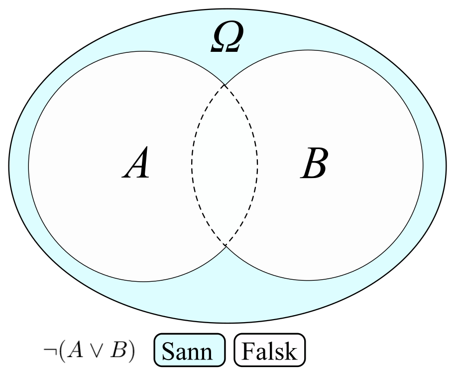 logical NOR